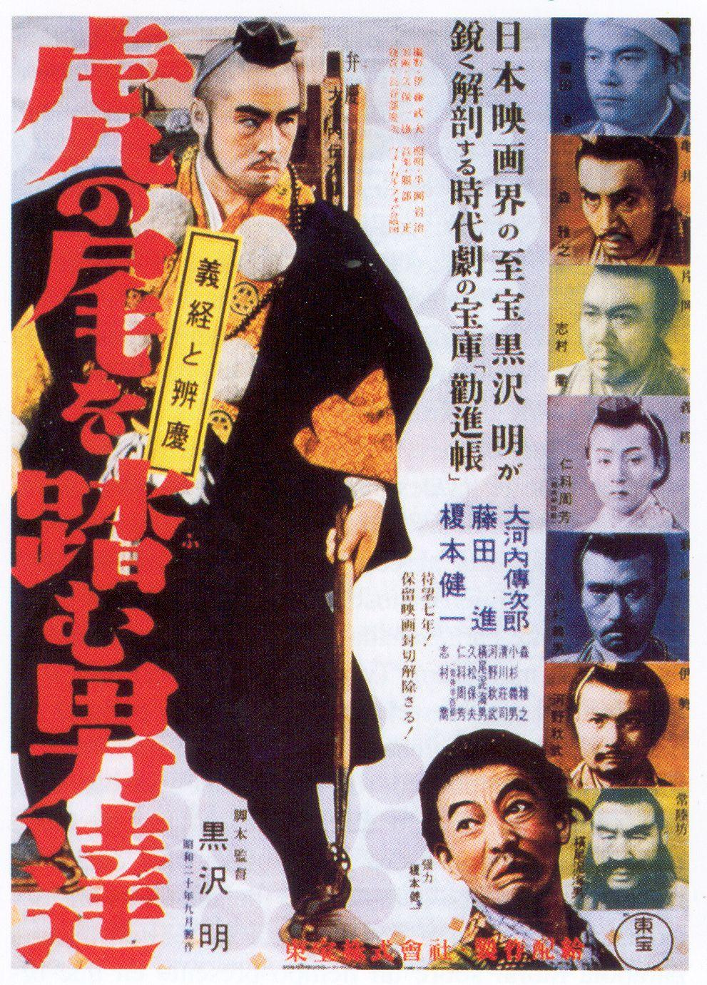 Movie poster for 1952 (filmed in 1945 but released in 1952) Japanese movie The Men Who Tread on the Tiger's Tail.